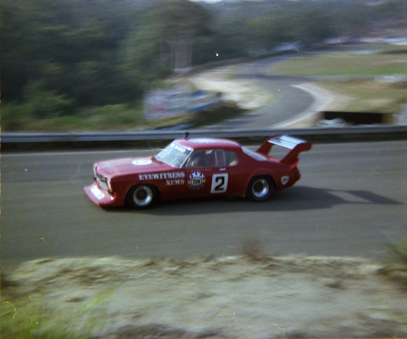 This image is a scan of a 126 negative taken at Amaroo Park in 1980